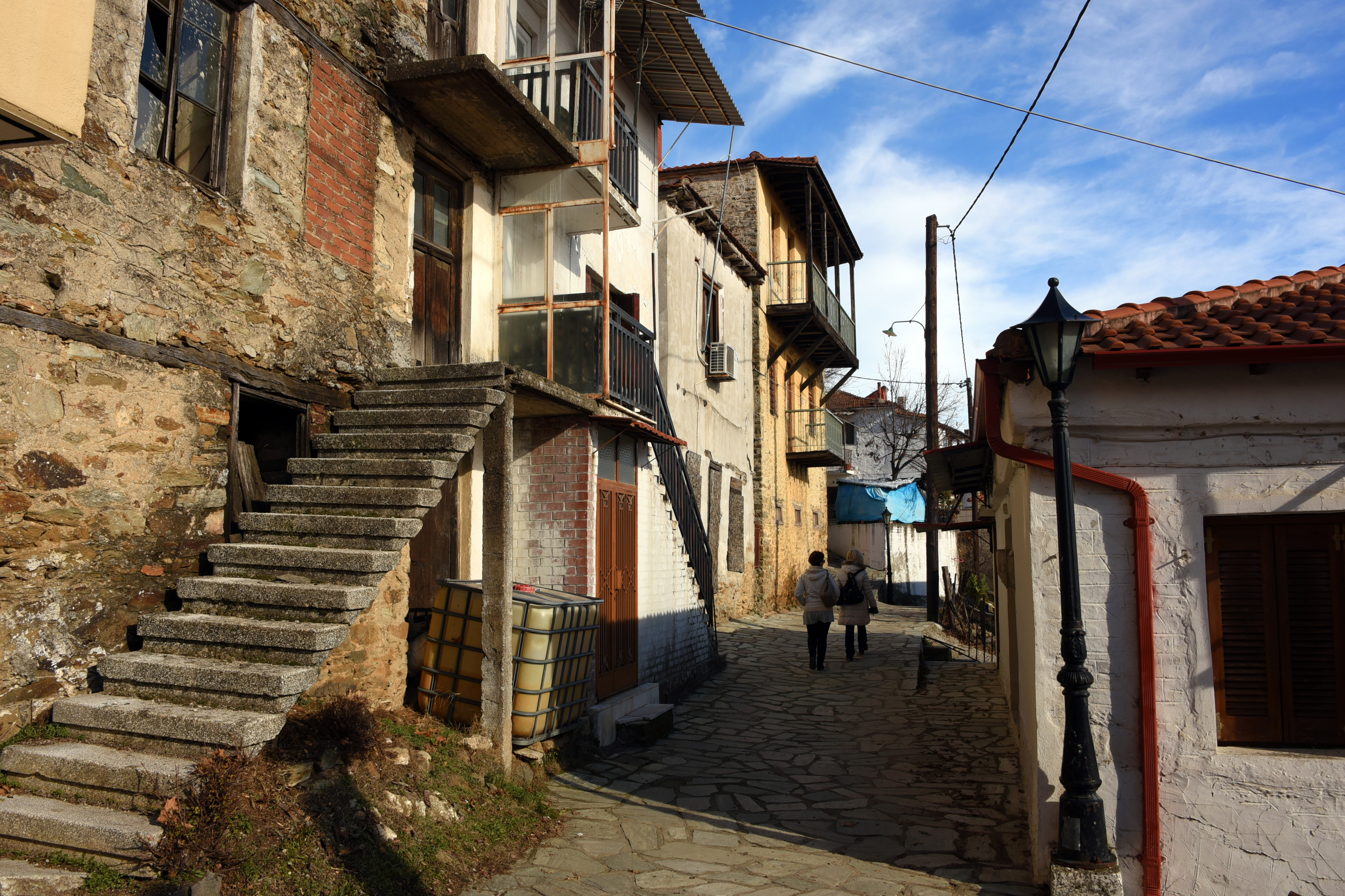 This is a photography of Natura 2000 protected area with ID GR1270012